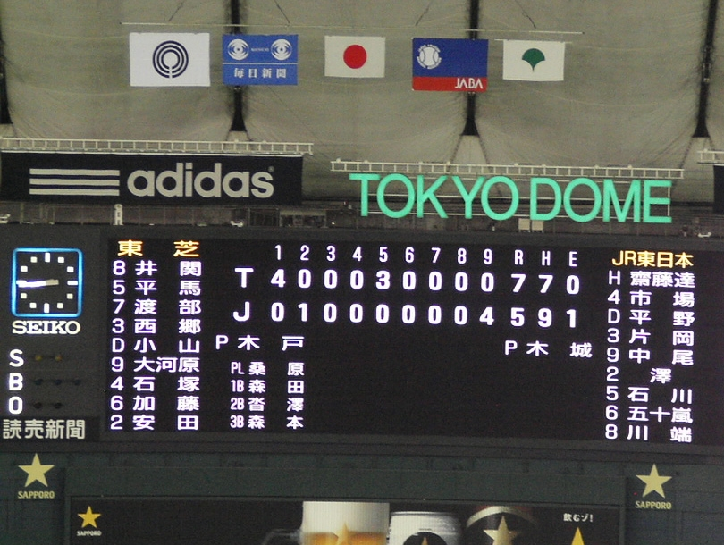 The Intercity Baseball Tournament 2007